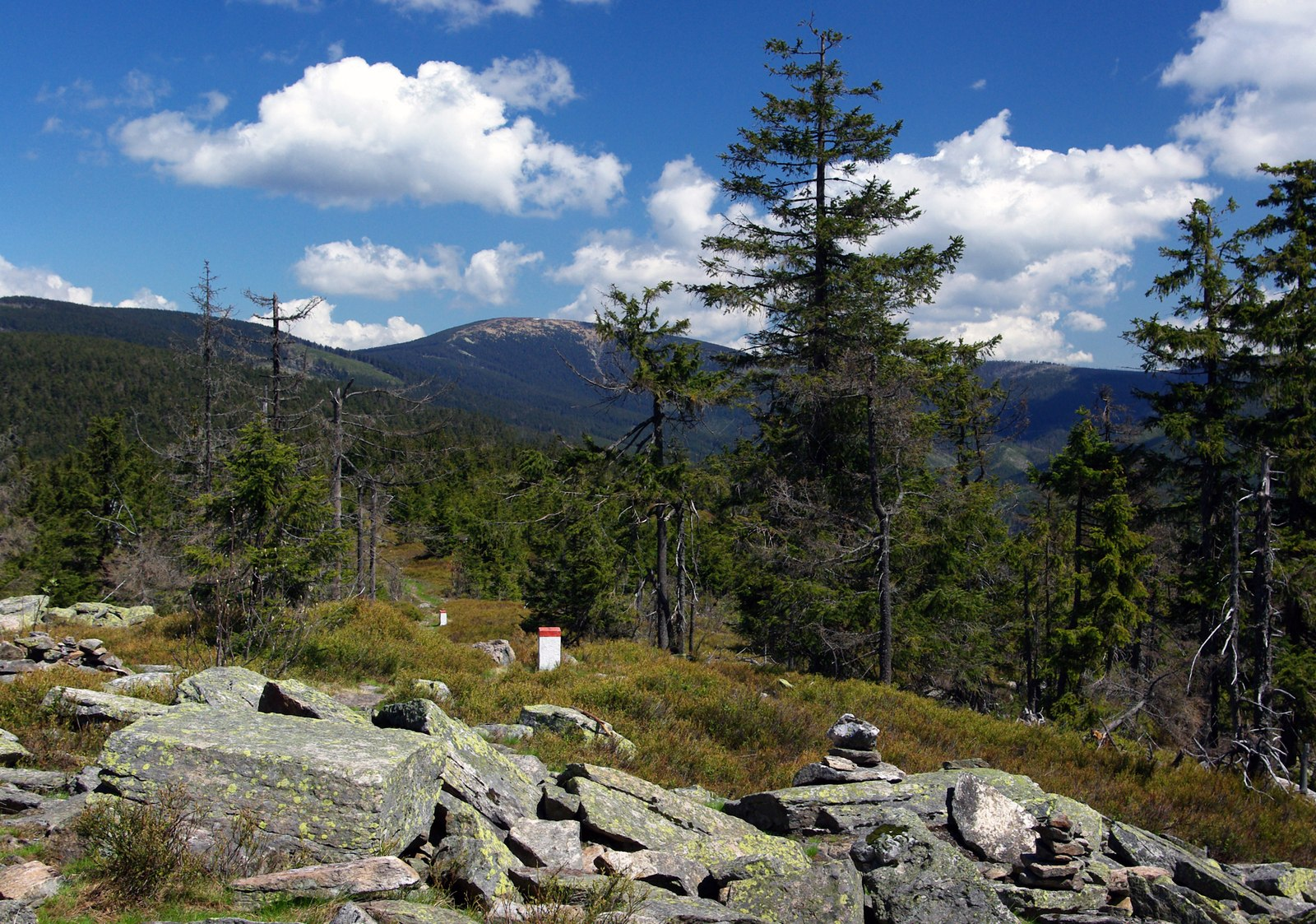 Kralicky Sneznik mountain